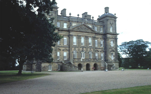 Duff House, Banff, Scotland. Designed and built by William Adam (1689-1748)